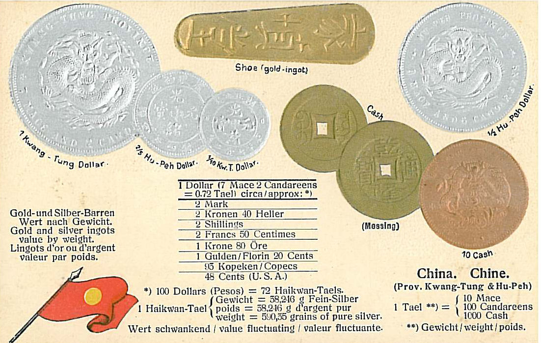 Historical postcard of China (Coins of China)